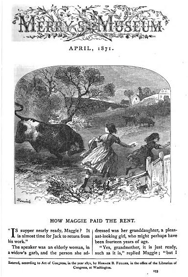 From: Merry's Museum, April 1871